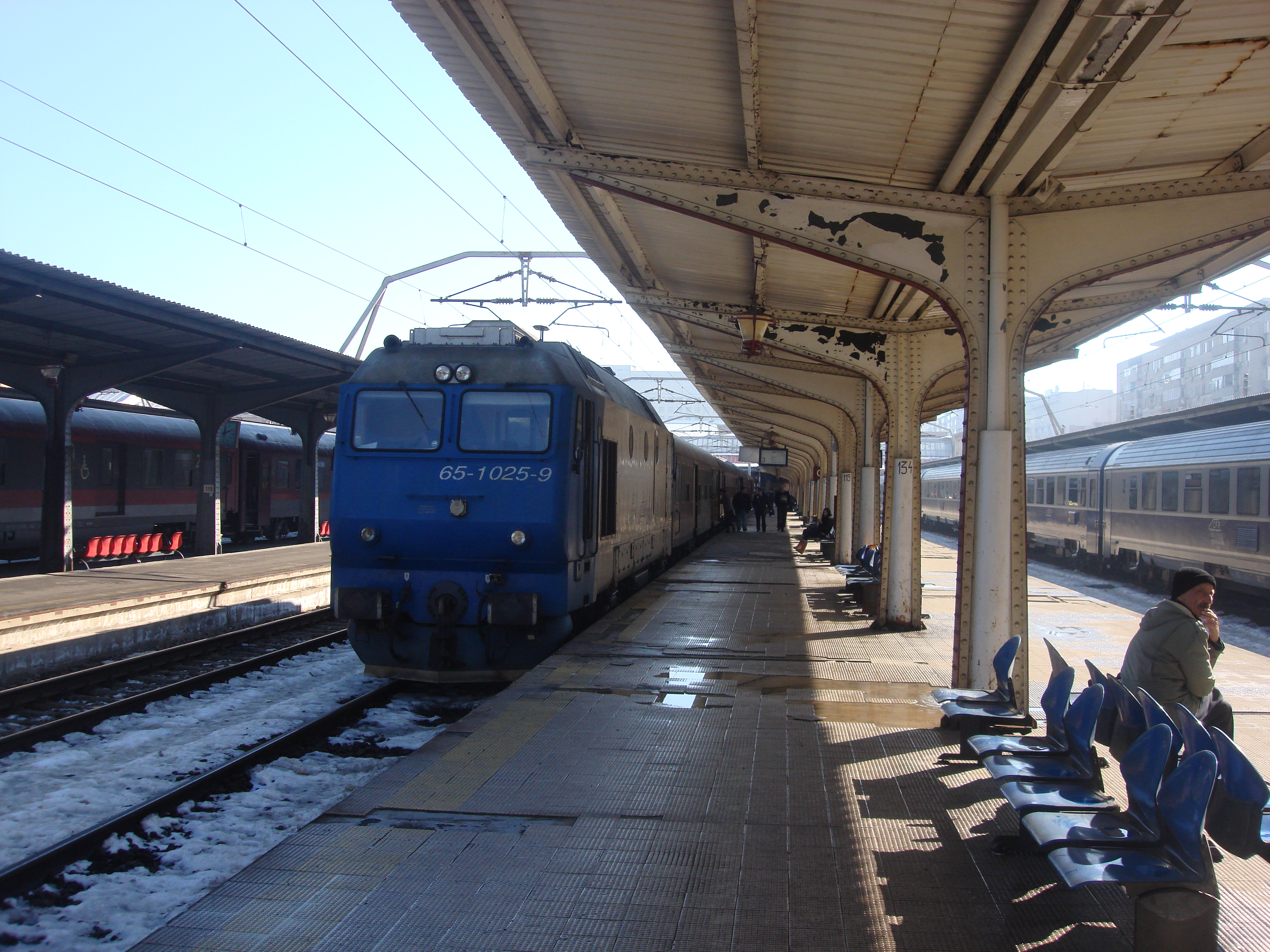 Joint international train 461/465 "Romania" and "Bosphorus" waiting to depart Bucharest North station.